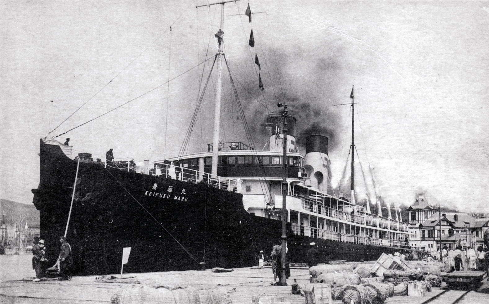 Keifuku Maru (1922-1957) at No.1 Wharf of Busan Customs